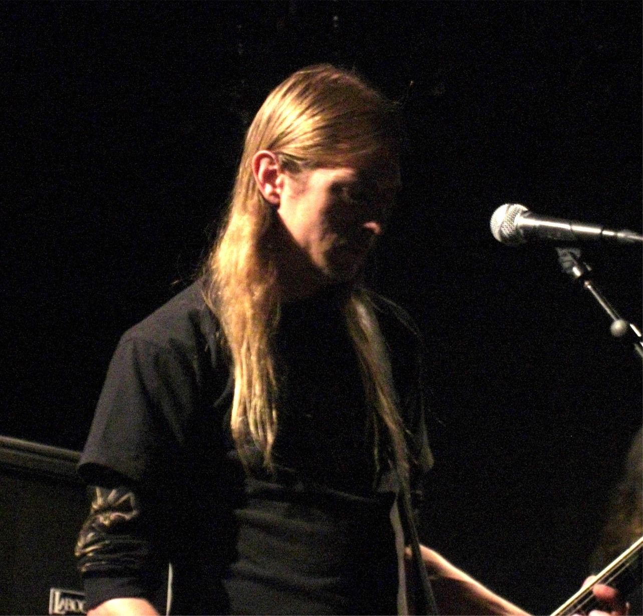 Ola Lindgren, singer of the Swedish death metal band Grave, Stockholm 2008